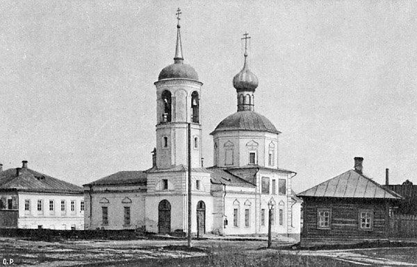 Serpukhov, St. Nicholas Church in Butki